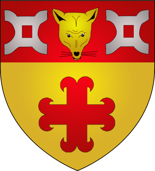 Coat of arms of the municipality of Waldbillig, Luxembourg